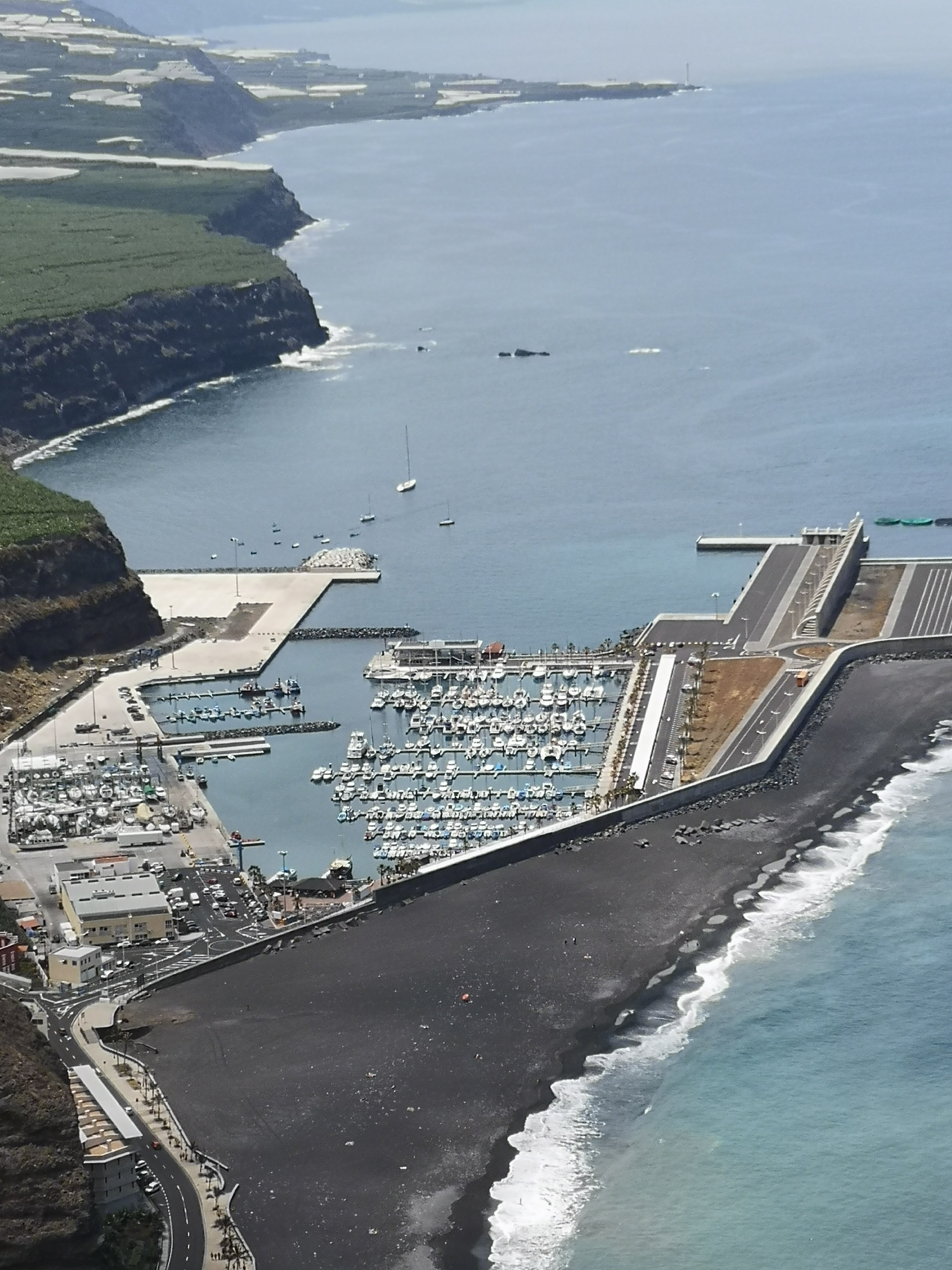 Puerto de Tazacorte, May 2018